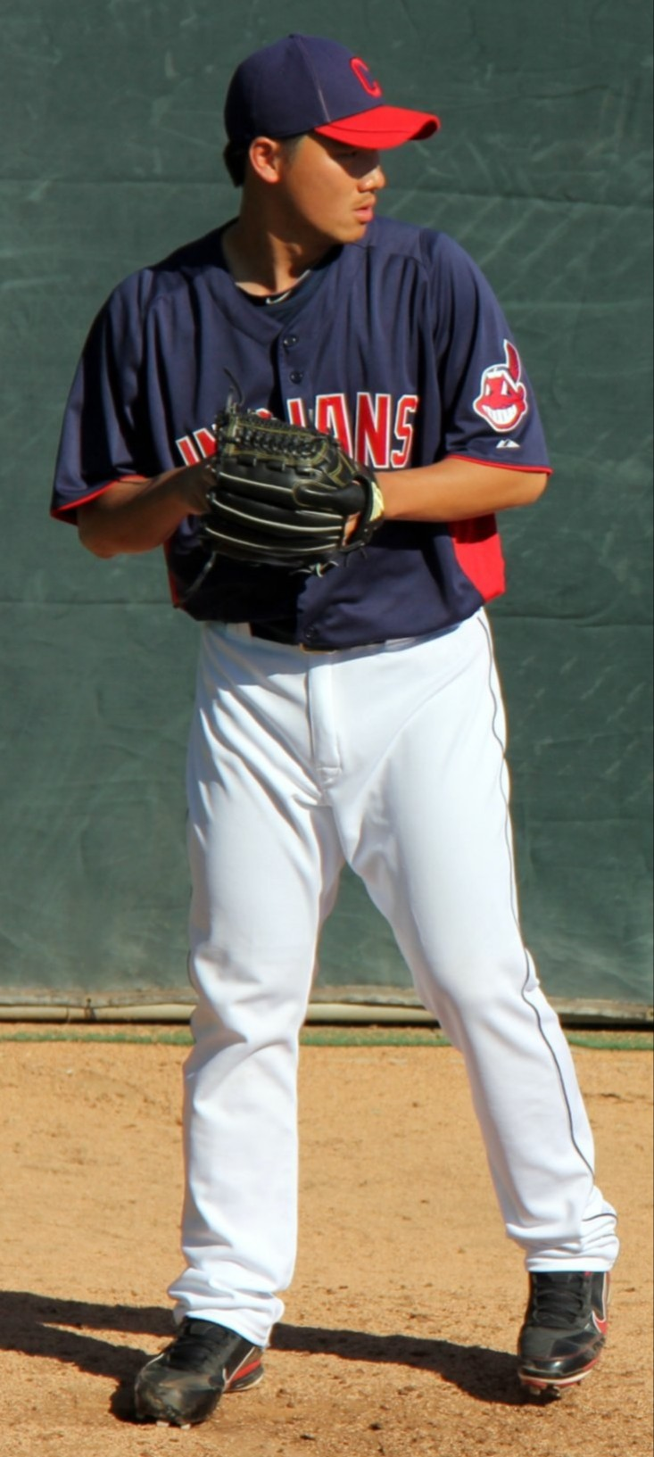 CC Lee in 2012 Cleveland Indians Spring Training.